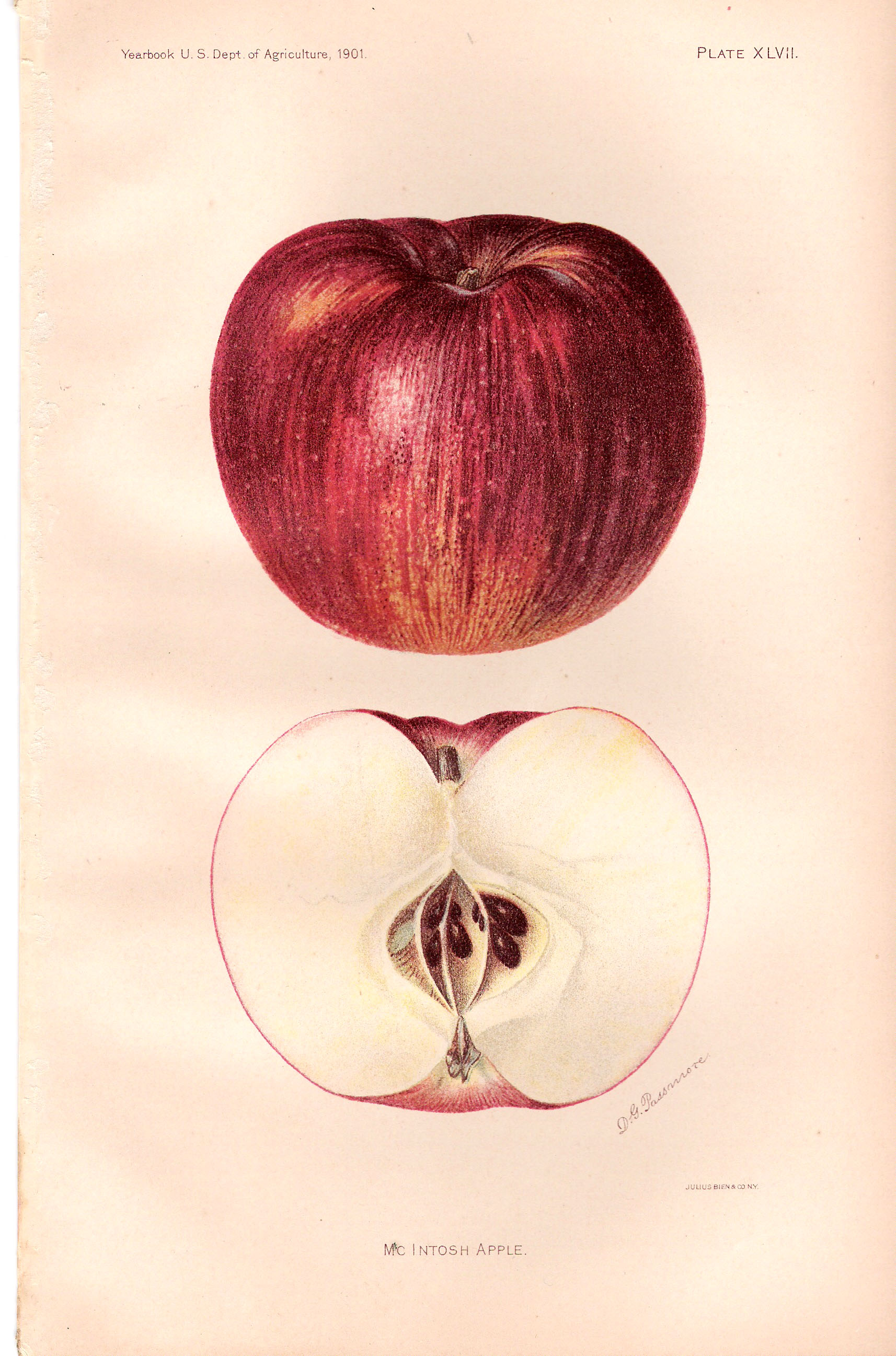 Plate XLVII from the Yearbook of the United States Department of Agriculture 1901, "Mc Intosh Apple"